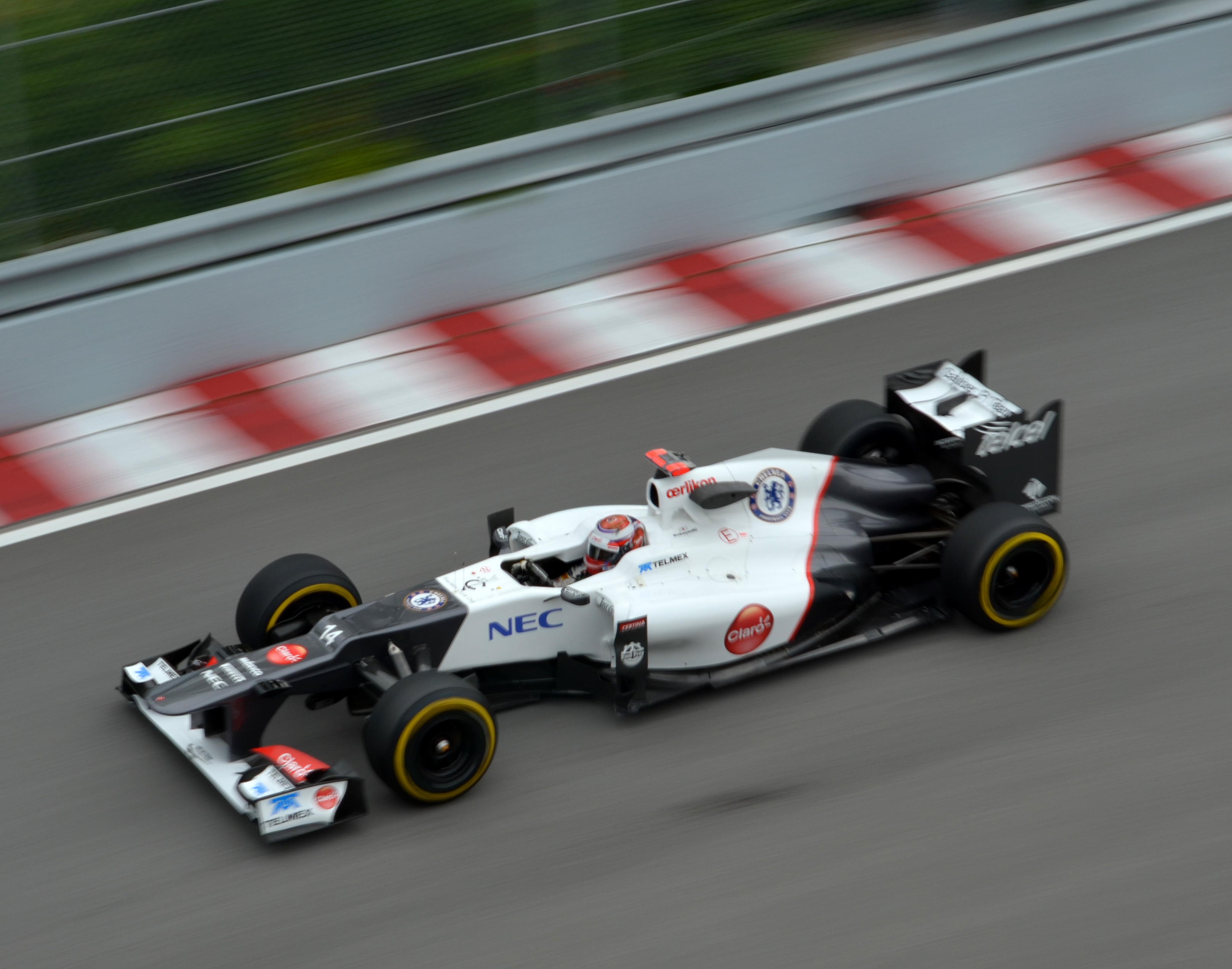 Kamui Kobayashi in the Sauber - Ferrari C31 exits turn 9 at Circuit Gilles Villeneuve during first practice for the 2012 Canadian Grand Prix